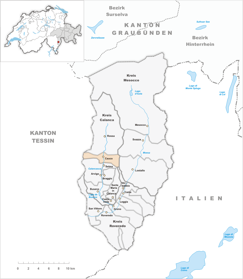 Municipality Cauco